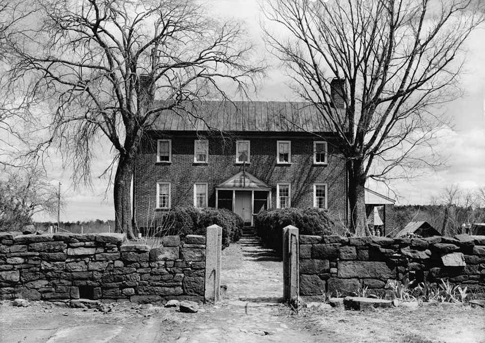 Photographic view of main house, Green Hill Plantation, State Route 728, Long Island vicinity, Campbell County, Virginia.Green Hill Plantation was owned by the Pannill family.